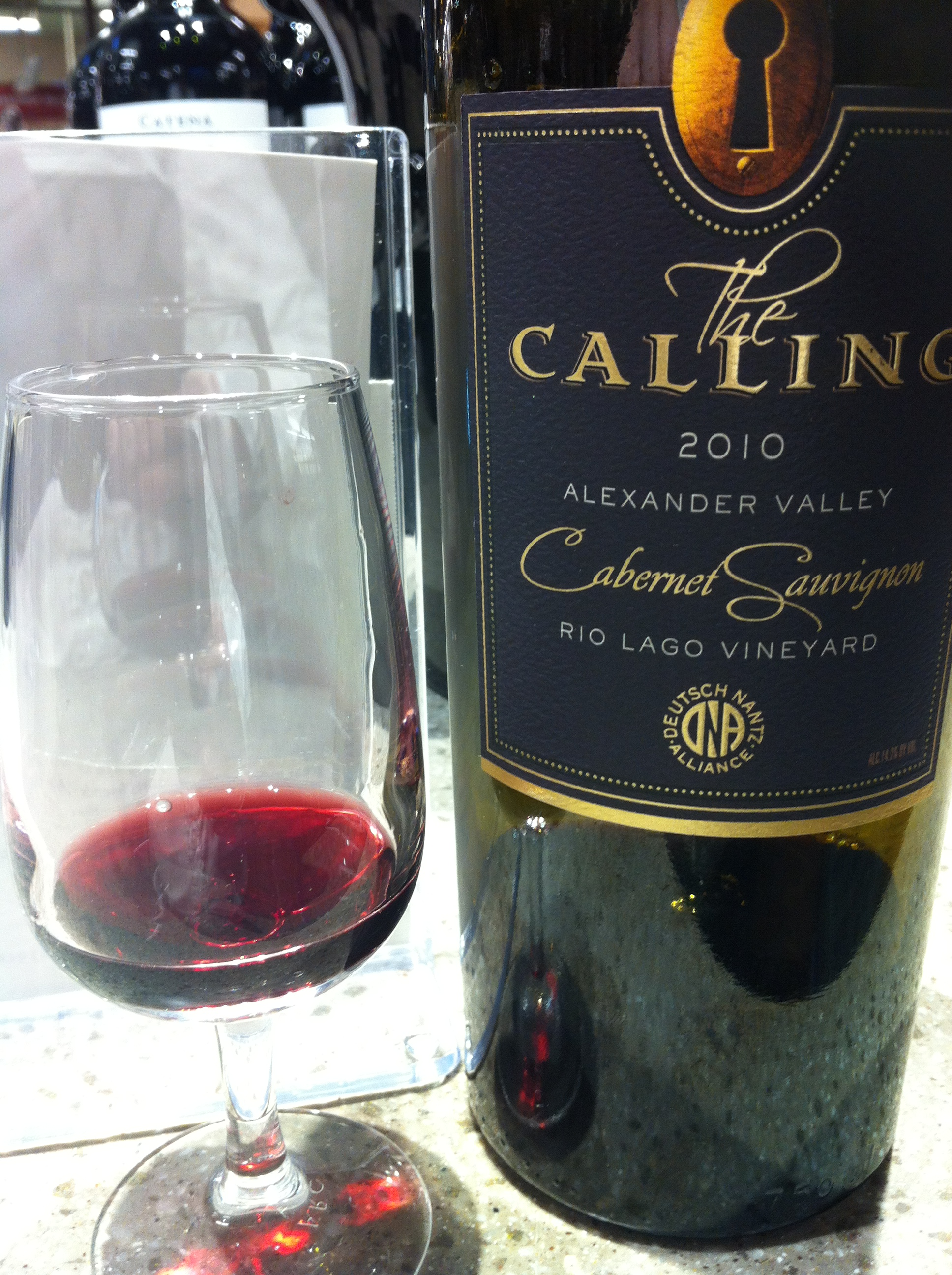 California Cabernet Sauvignon from the Alexander Valley region of Sonoma county. The winery is owned by CBS sportscaster Jim Nantz